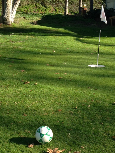 FootGolf